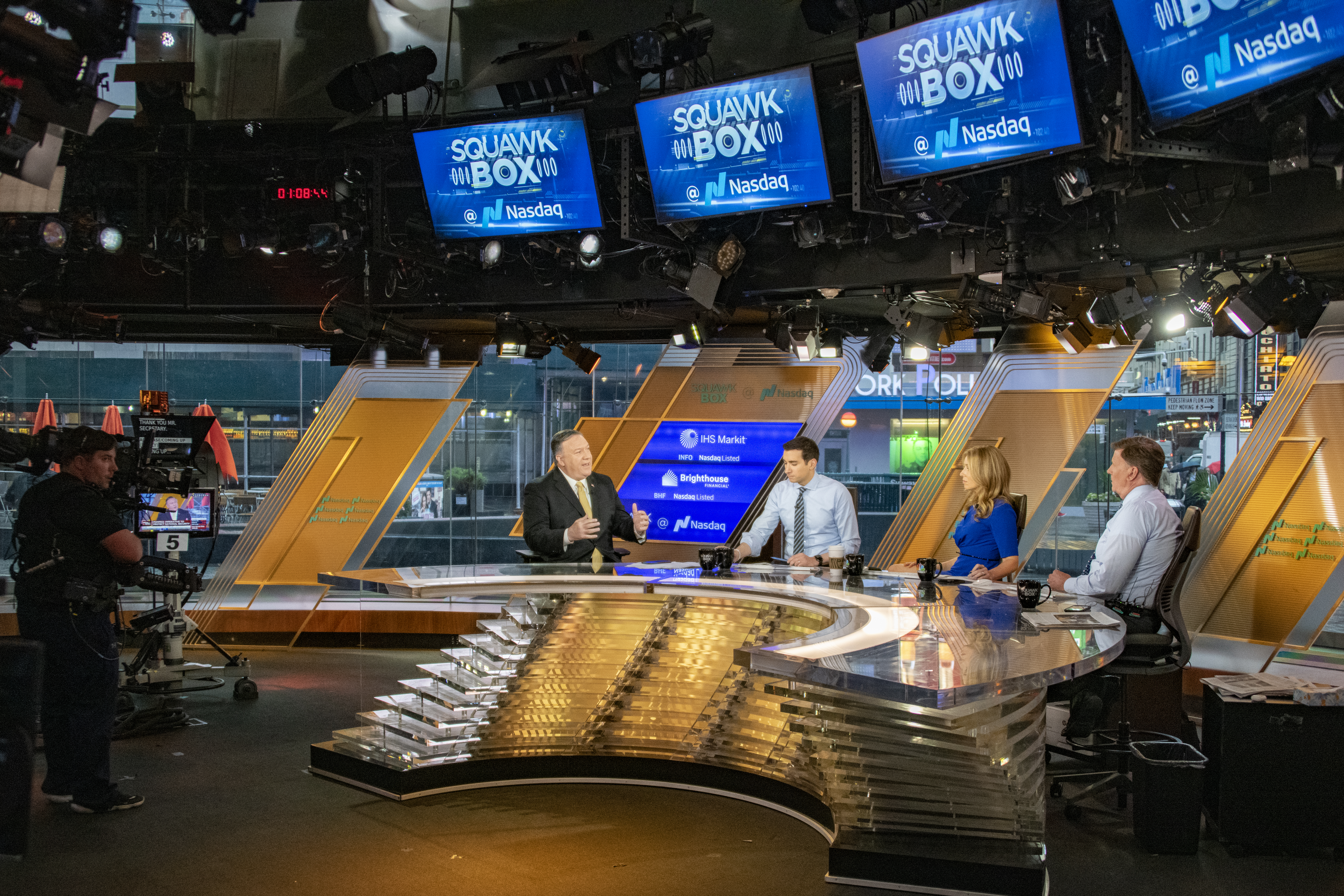 U.S. Secretary of State Michael R. Pompeo participates in an interview with CNBC's Squawk Box in New York City, New York on May 23, 2019. [State Department photo by Ron Przysucha/ Public Domain]